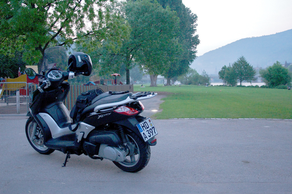 2008 Yamaha X-City 250 @ Heidelberg, Germany